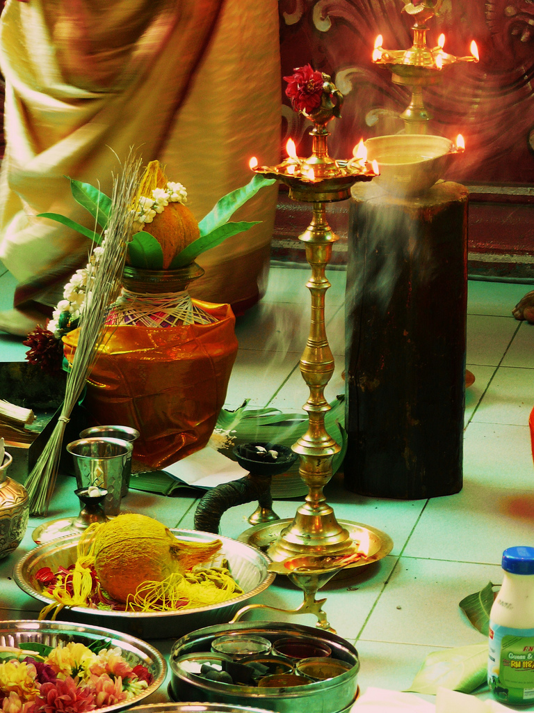 Taken during Hindu wedding ceremony